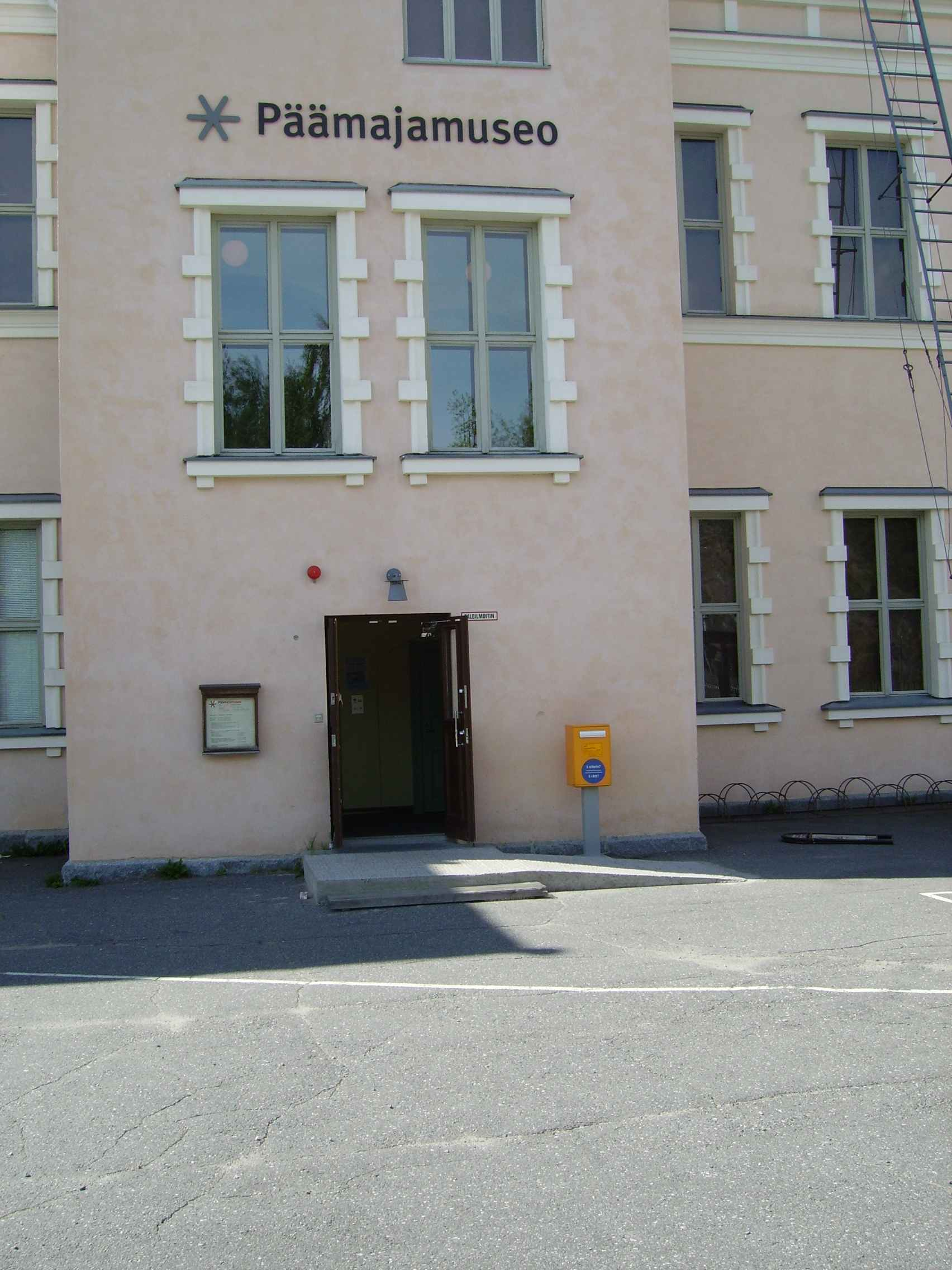 Finnish wartime (1941–45) headquarters. Today a museum.